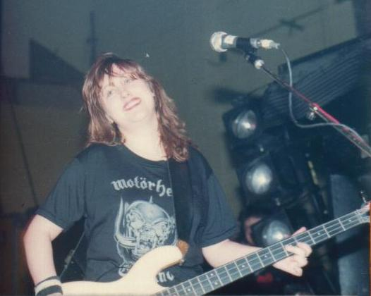 Enid Williams of Girlschool live in Cardiff, 1981